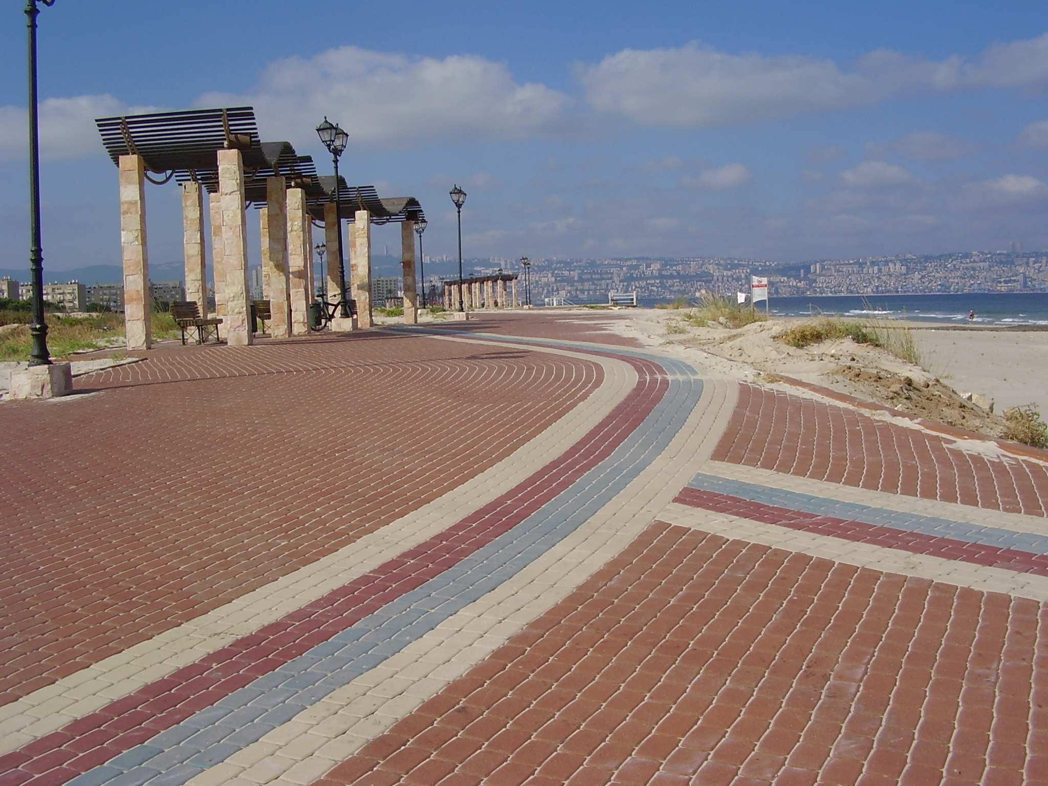 Kiryat Yam Beach